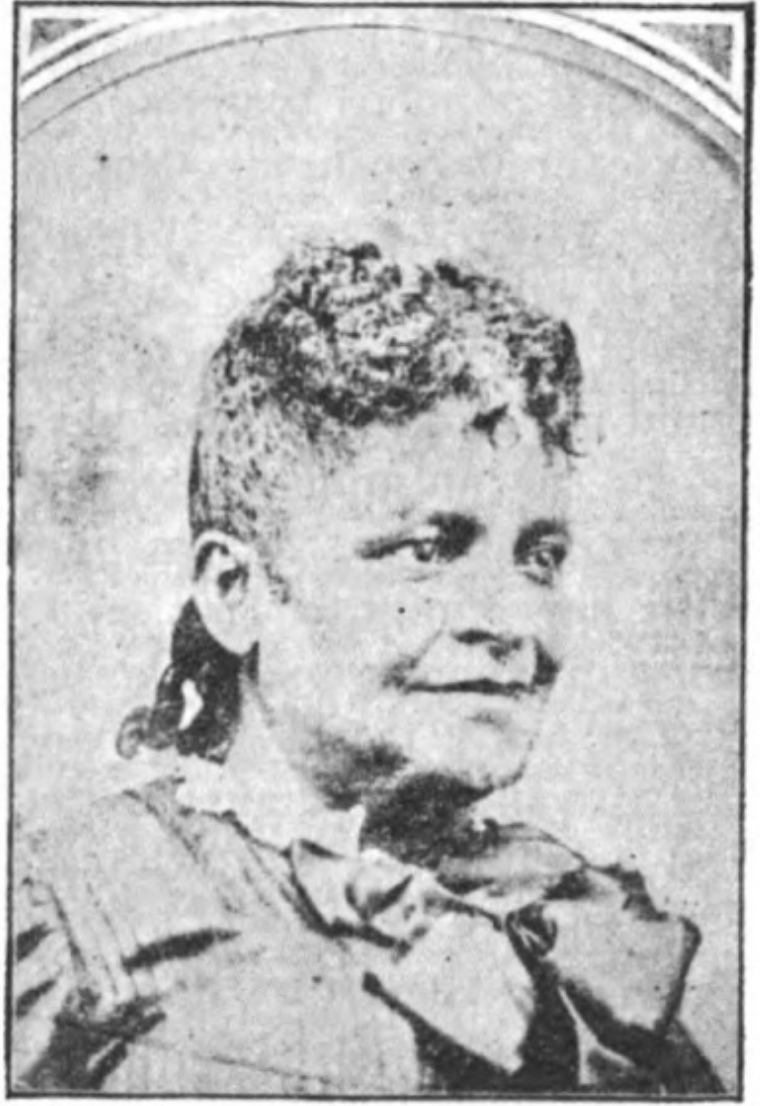 Poor quality photo of a woman, from the shoulders up. Naomi Anderson was a black suffragist who advocated for equal rights for all genders and races in the 1870s